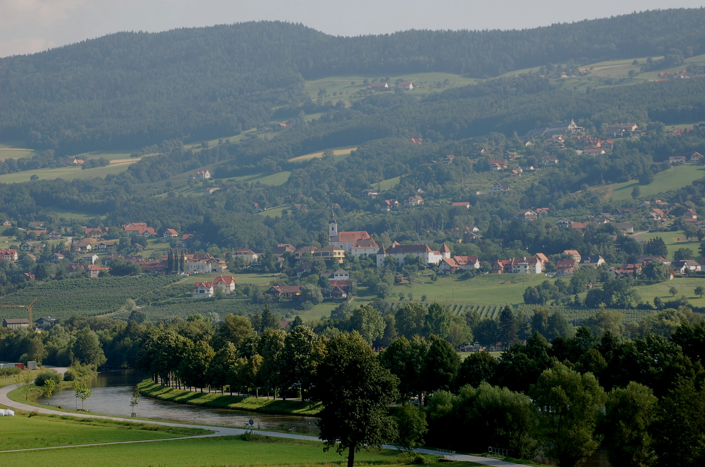 Stubenberg in Styria. In the foreground the river Feistritz can be seen; the lake Stubenbergsee is hidden by the trees in the right part of the picture.